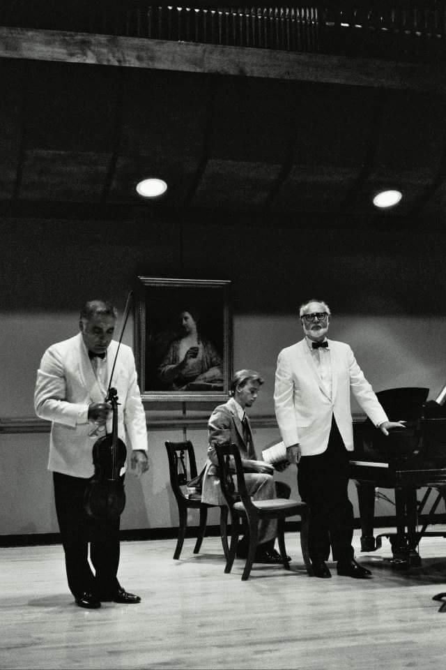 Joseph de Pasquale and Vladimir Sokoloff, after premiering the George Rochberg Sonata at the 1979 Viola Congress in Provo, Utah. Photo by Dwight Pounds. Please credit Author upon use.